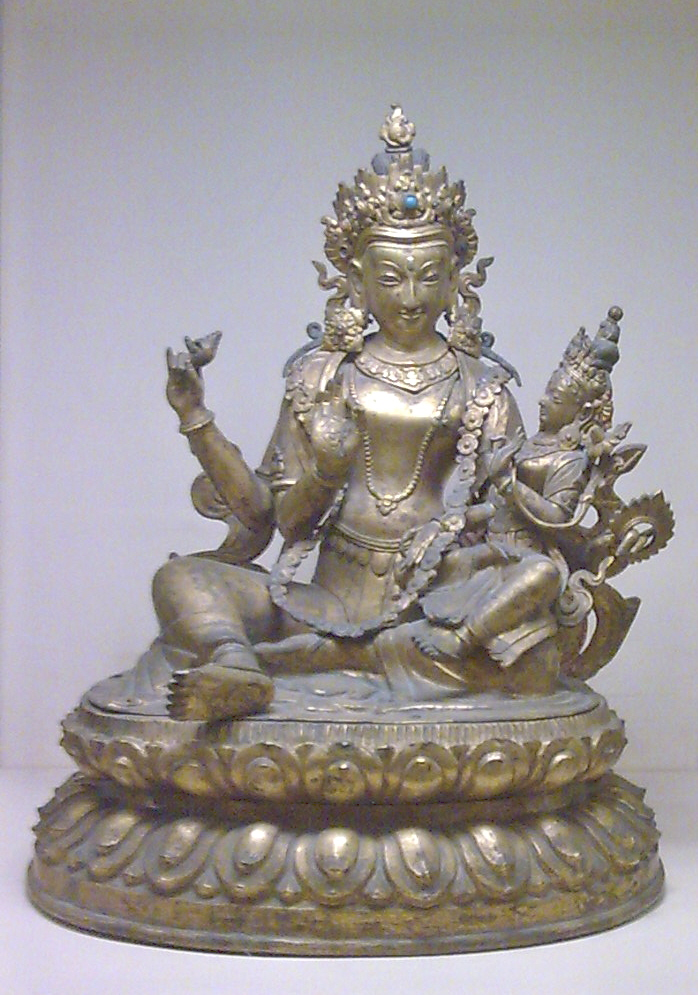 Lakshmi -Narayana, Nepal, 19th century placed in Prince of Wales museum, Mumbai